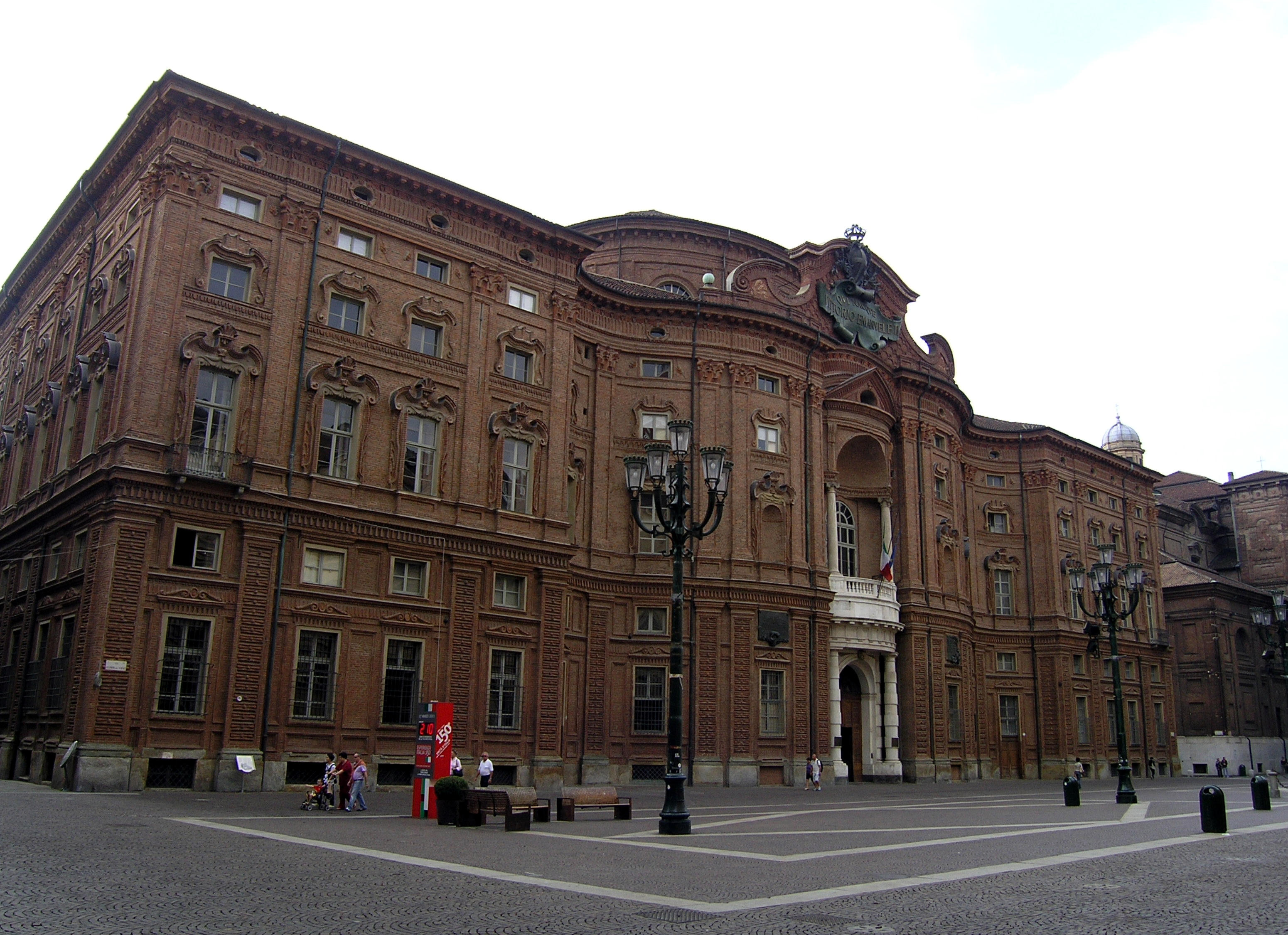 Front of palace Carignano, Turin (Italy)